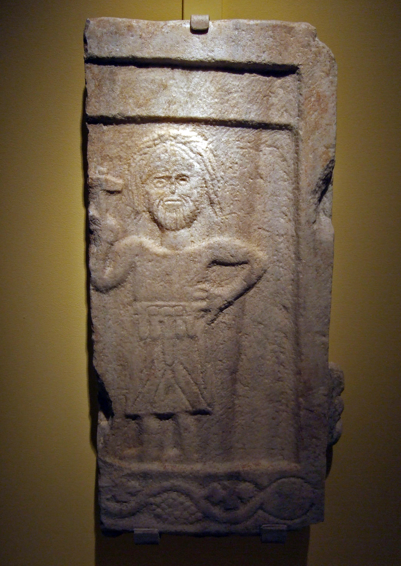 Ambo plaque with depiction of a saint Novara, Province of Novara, Region Piedmont, Italy This fragment together with another one is ascribed to an ambo (a church lectern) with a double staircase. The image area of the ambo plate shows a frontal view of a bearded man with long hair wearing a garment that reaches to his calves and a multipartite belt set at his waist level. In his raised right hand he is holding a hammer or an axe. His left hand is propped on his hip. The figure portrayed is unquestionably a Lombard. Photographed while on display from 22 August 2008 to 11 January 2009 in the exhibition "Die Langobarden. Das Ende der Völkerwanderung" at the Rheinisches LandesMuseum Bonn. On loan from the Museo della Canonica del Duomo, Novara.